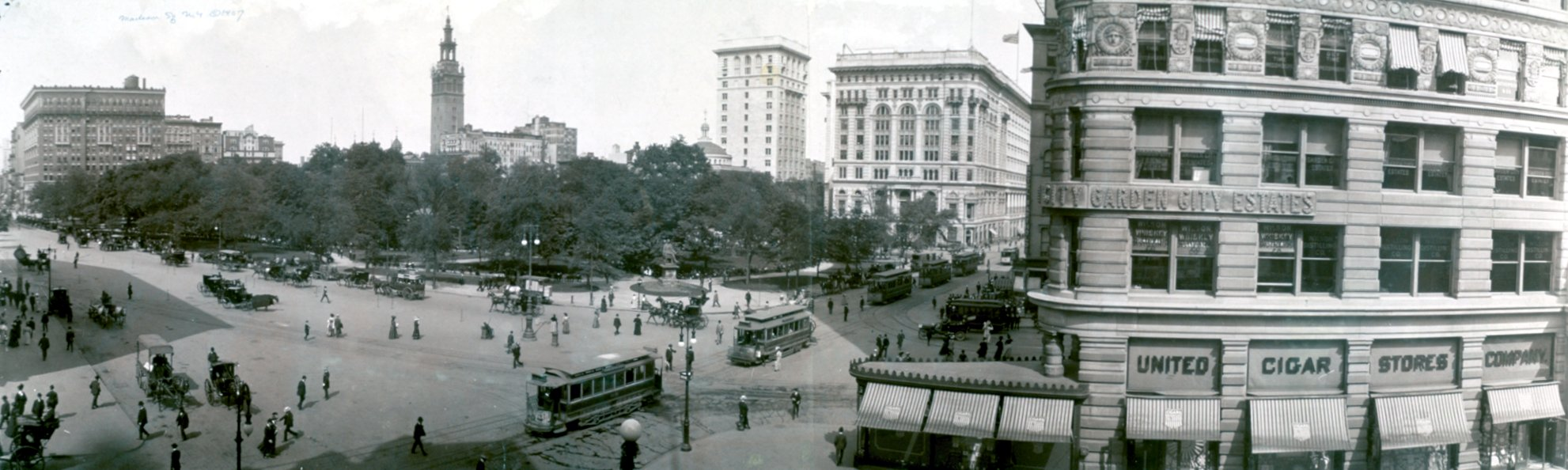 Madison Square, New York, 1908 showing part of the Flatiron Building, at right, and the second Madison Square Garden, built in 1890, in the center background Title: Madison Square, New York Related Names: E. Chickering & Co. , copyright claimant Date Created/Published: c1907. Medium: 1 photographic print : silver printing-out paper ; 11.5 x 39.5 in. Reproduction Number: LC-USZ62-119643 (b&w film copy neg. of right section) LC-USZ62-119642 (b&w film copy neg. of left section) Rights Advisory: No known restrictions on publication. Call Number: PAN US GEOG - New York no. 166 (E size) [P&P] Repository: Library of Congress Prints and Photographs Division Washington, D.C. 20540 USA Notes: H96563 U.S. Copyright Office; Copyright deposit; E. Chickering & Co.; July 15, 1907. Subjects: Street railroads; Commercial streets; United States--New York (State)--New York. Format: Panoramic photographs; Silver printing-out paper prints Collections: Panoramic Photographs Part of: Panoramic photographs (Library of Congress) Bookmark This Record